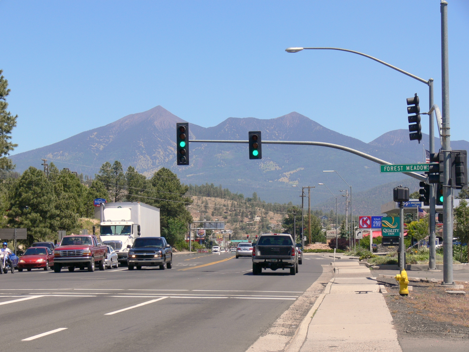 The image was personally taken and modified by me in June 2006. Wars 18:26, 25 June 2006 (UTC)